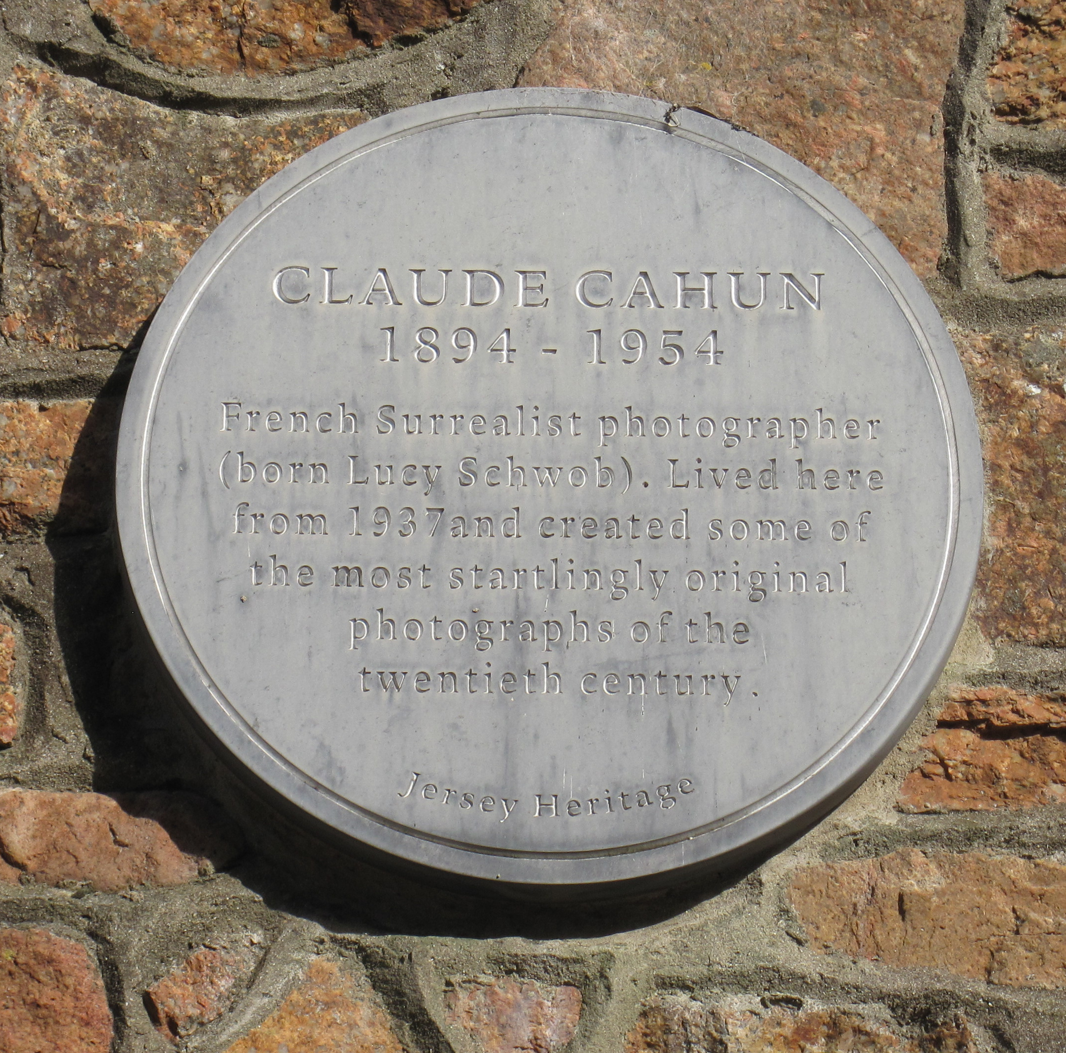 Saint Brelade, Jersey Nrf: Saint Brélade, Jèrri